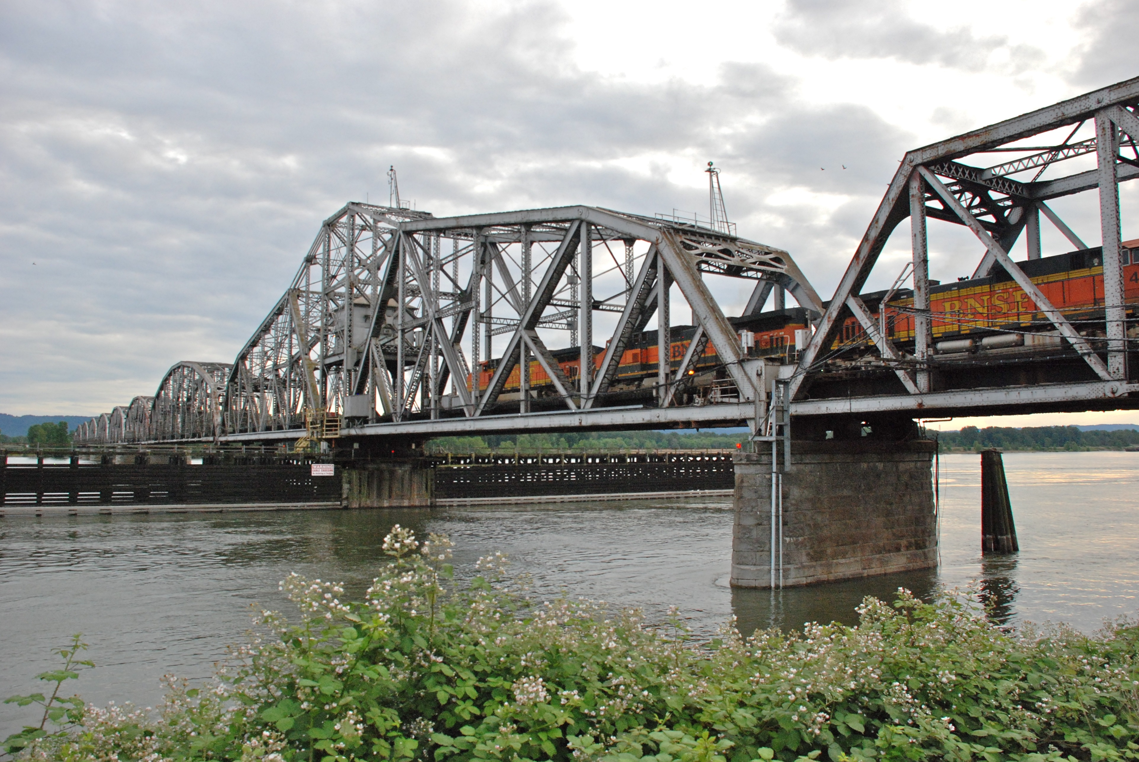 The BNSF Railway Bridge 9.6 is a swing-span railroad bridge across the Columbia River, connecting Portland, Oregon with Vancouver, Washington. It was opened in 1908. This photo was taken from near the bridge's north end, in Vancouver, and shows a BNSF freight train starting to cross.